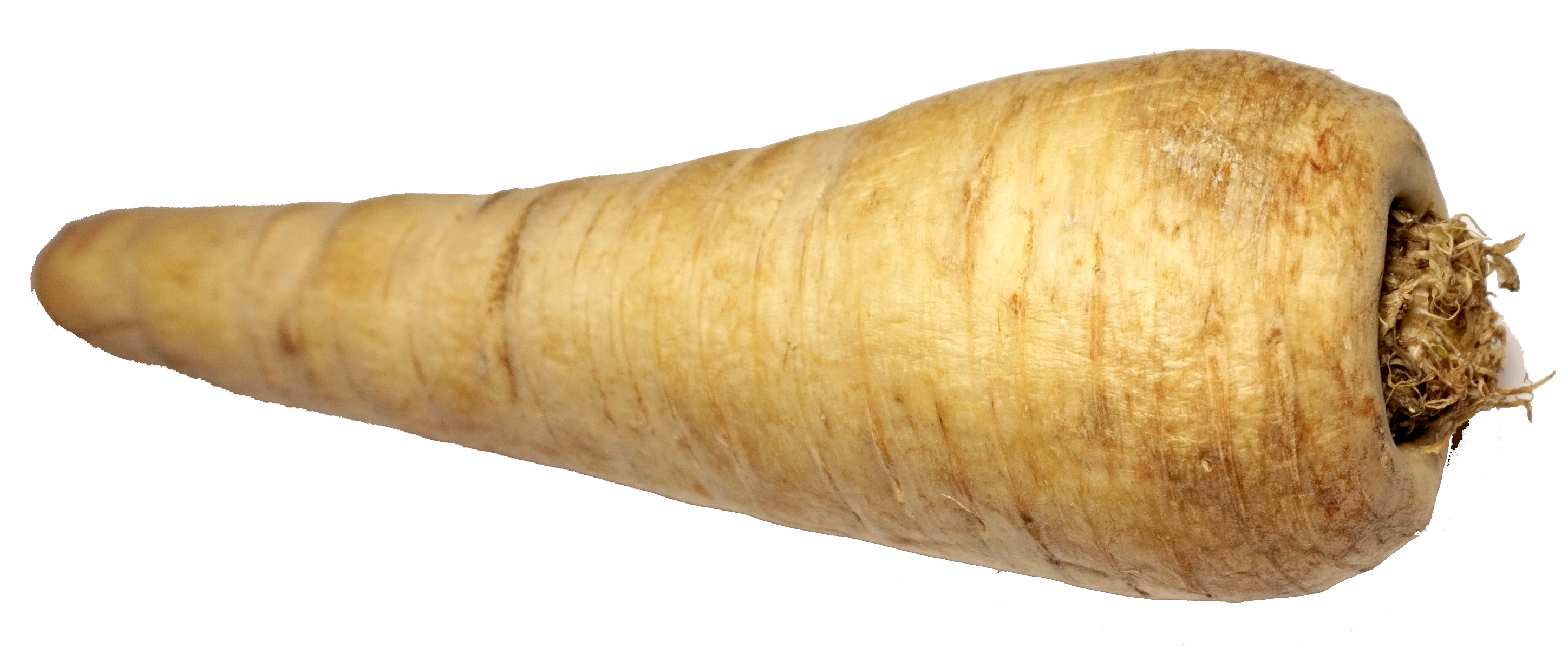 A parsnip.